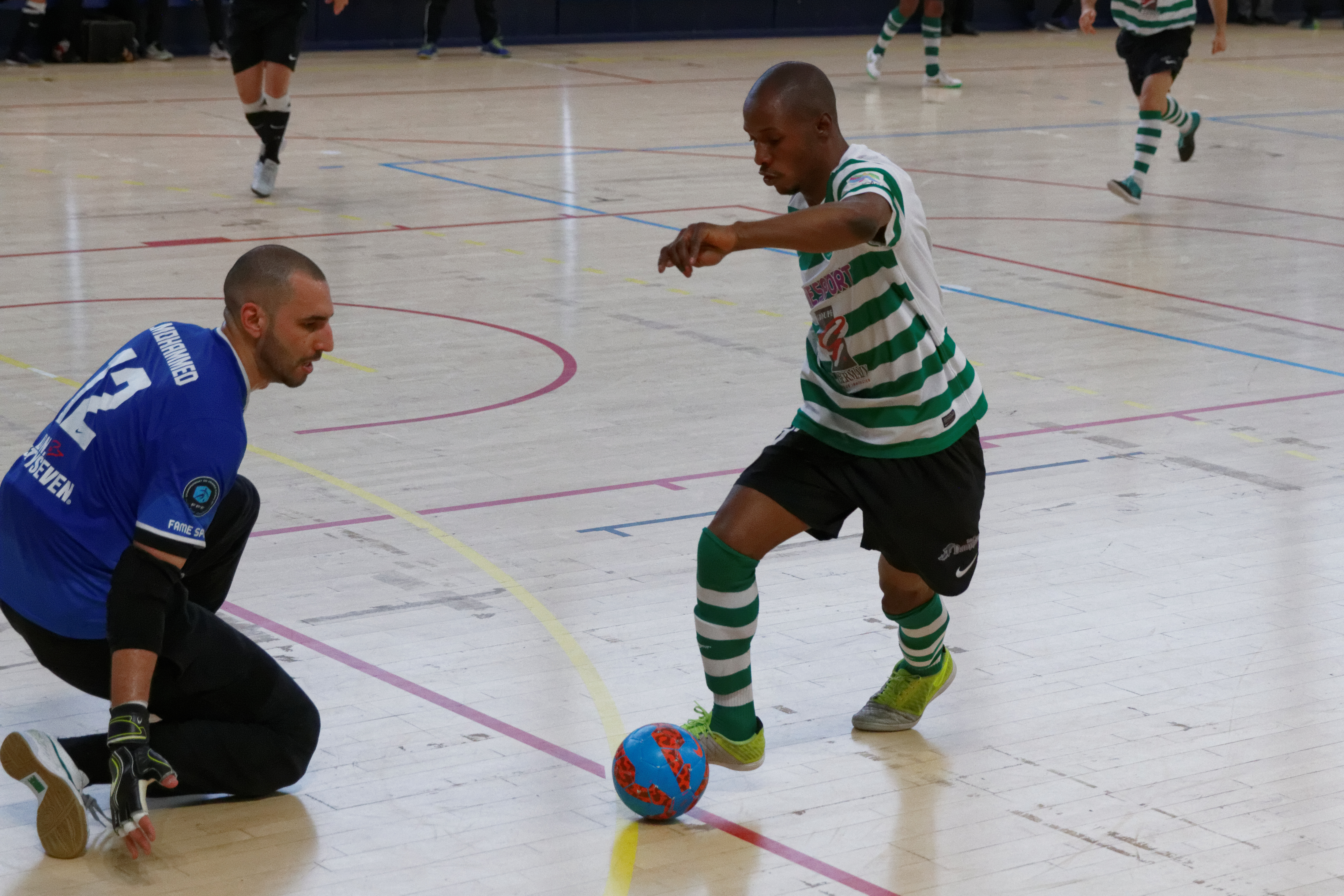 France futsal championship. Play-off. Sporting Club de Paris vs Kremlin-Bicêtre United.